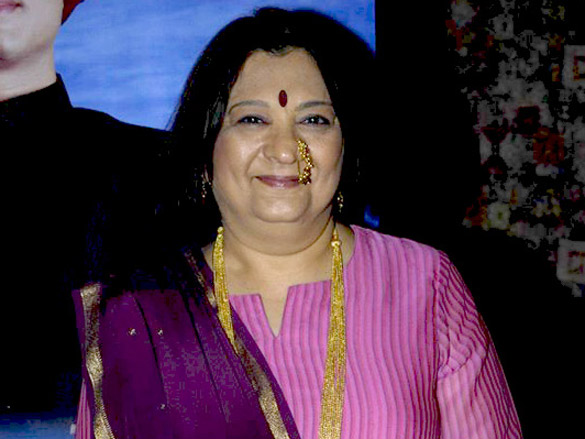 Marathi and Hindi film actress Bharti Achrekar